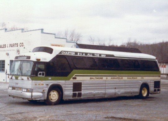 1969 General Motors model PD4903A GM Buffalo bus Motorcoach Unit 2103 of the Baltimore and Annapolis Railroad Company, photographed in Pitman, March 1983